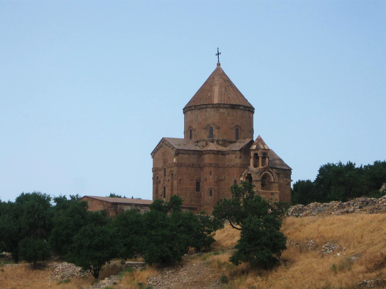 Van lake. Akhtamar island's Surb Khach Armenian Church